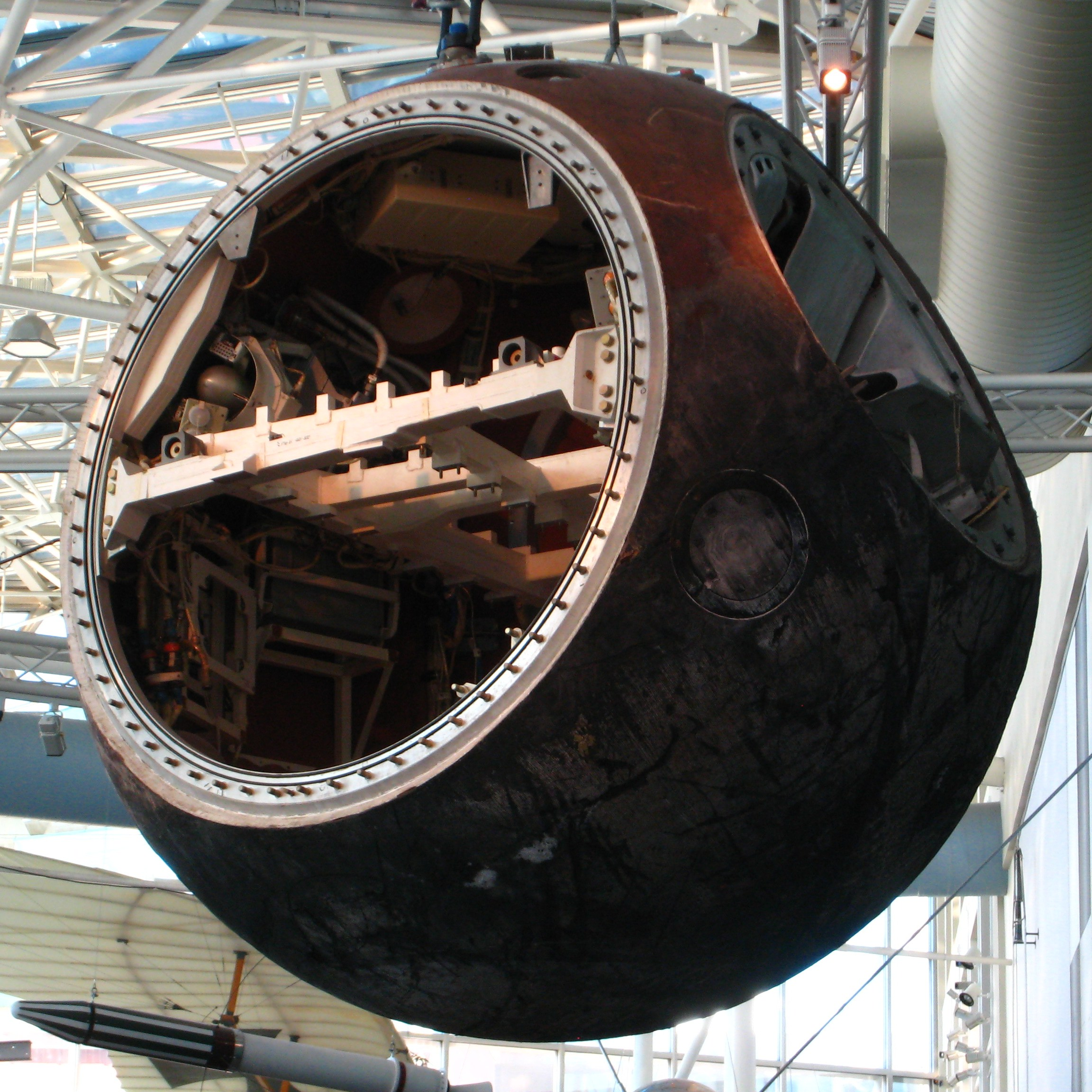 Descent module of the Resurs-F1 (Resurs-500) Russian space satellite (also called Columbus' star), which was launched in November 1992. Now housed at The Museum of Flight, Seattle, WA.